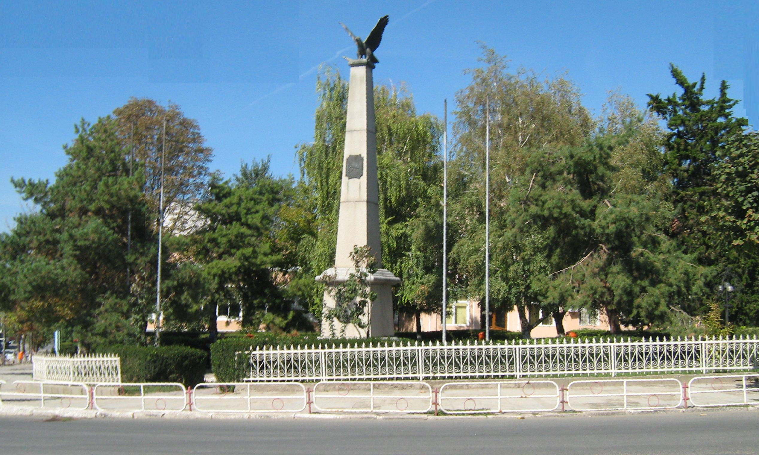 Macin - gallery 3